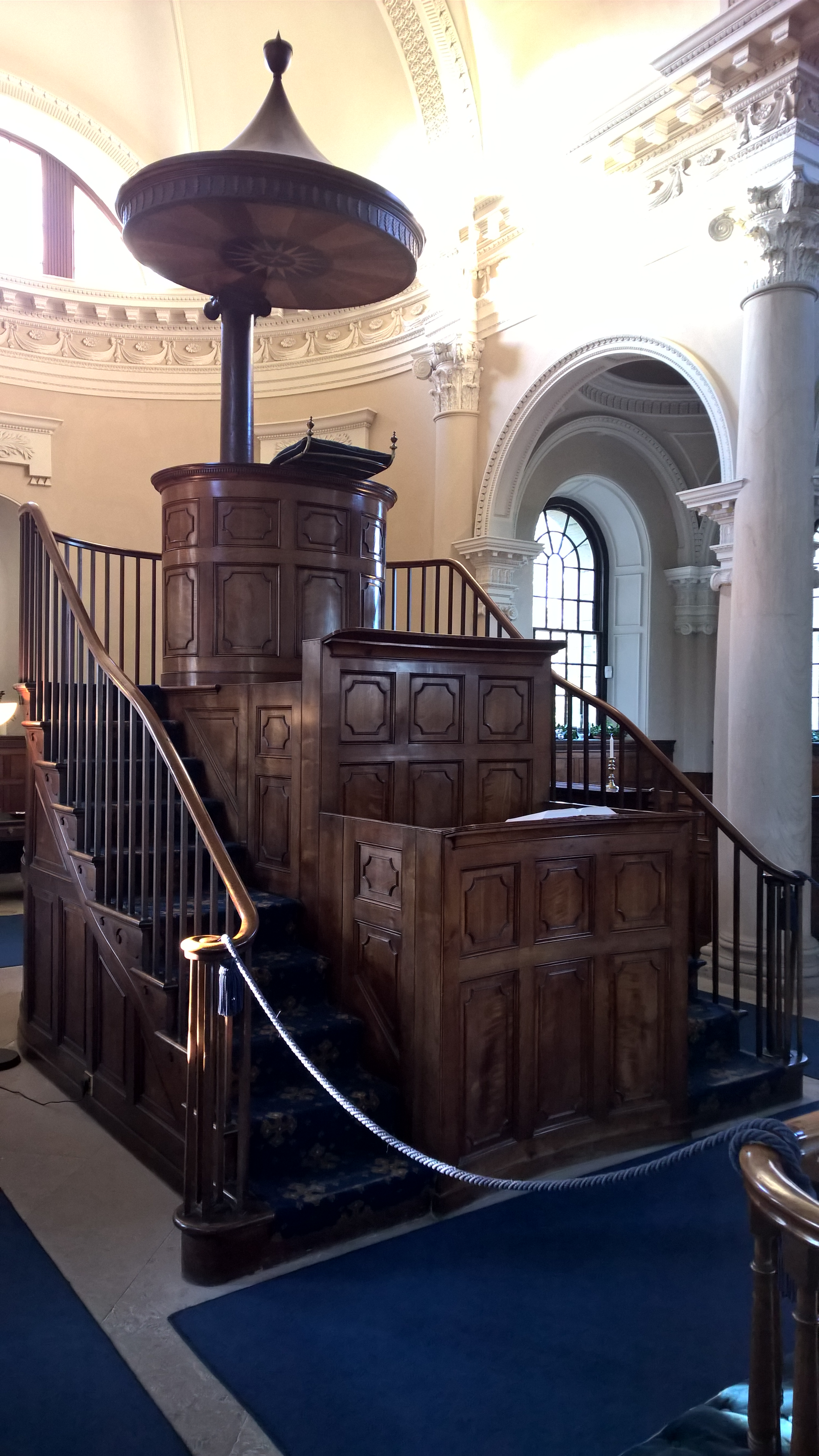 Three-decker pulpit; part af the early 19th-century interior of the Chapel (begun in 1760 to the designs of James Paine).